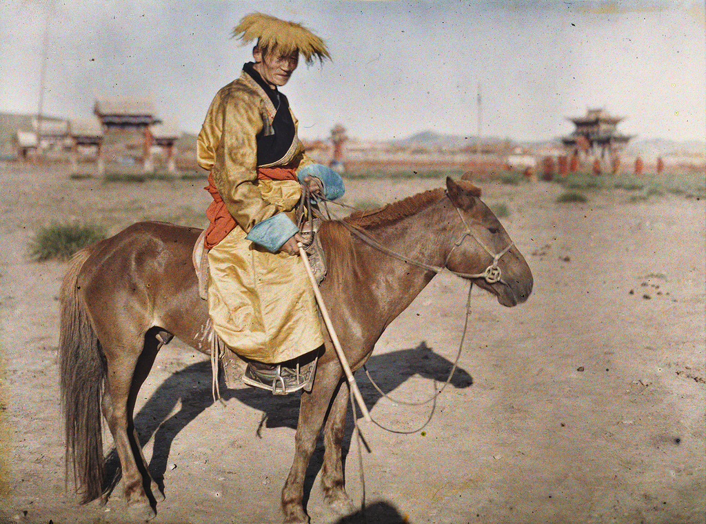 The shanzav Badamdorj (?) near the Yellow palace, Urga, Mongolia. Autochrome.